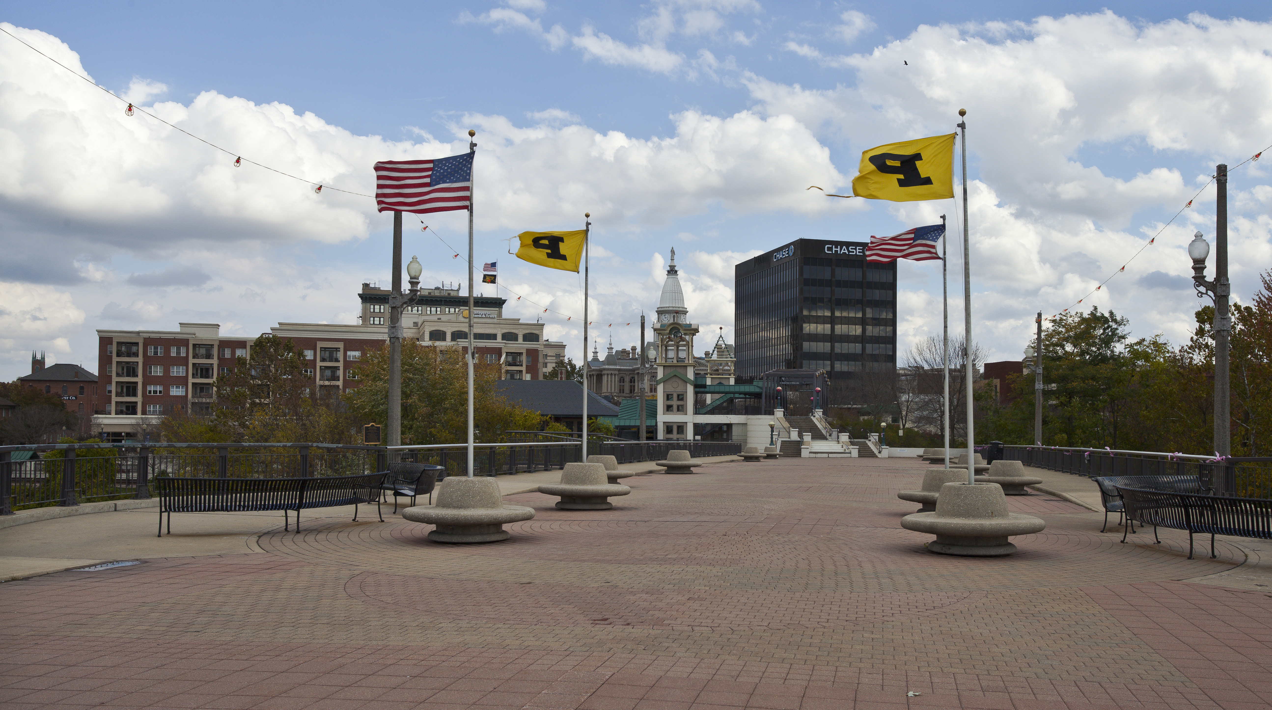 View of Lafayette from Main St bridge, Indiana, USA